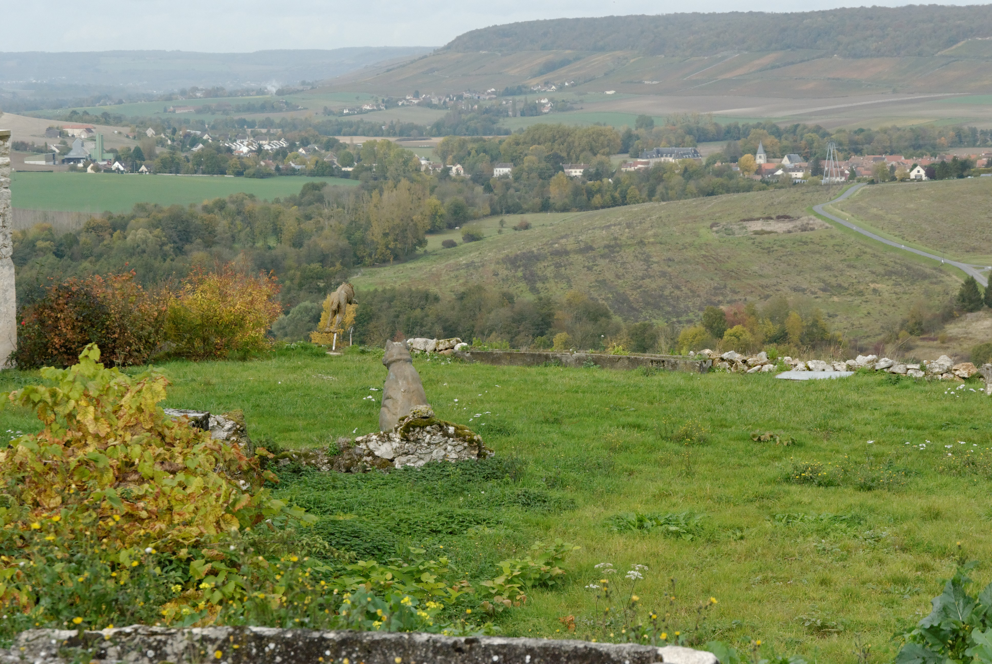 This canton is characterized by the numerous sources(springs) and the valleys which bring him(her) important lowerings. On hillsides exposed(explained) to the South; we cultivate the vineyard which produces some wine in A.O.C. CHAMPAGNE. In valleys, we find the traditional, mainly cereal culture. To the numerous sources (springs) are liész washhouses and fountains.